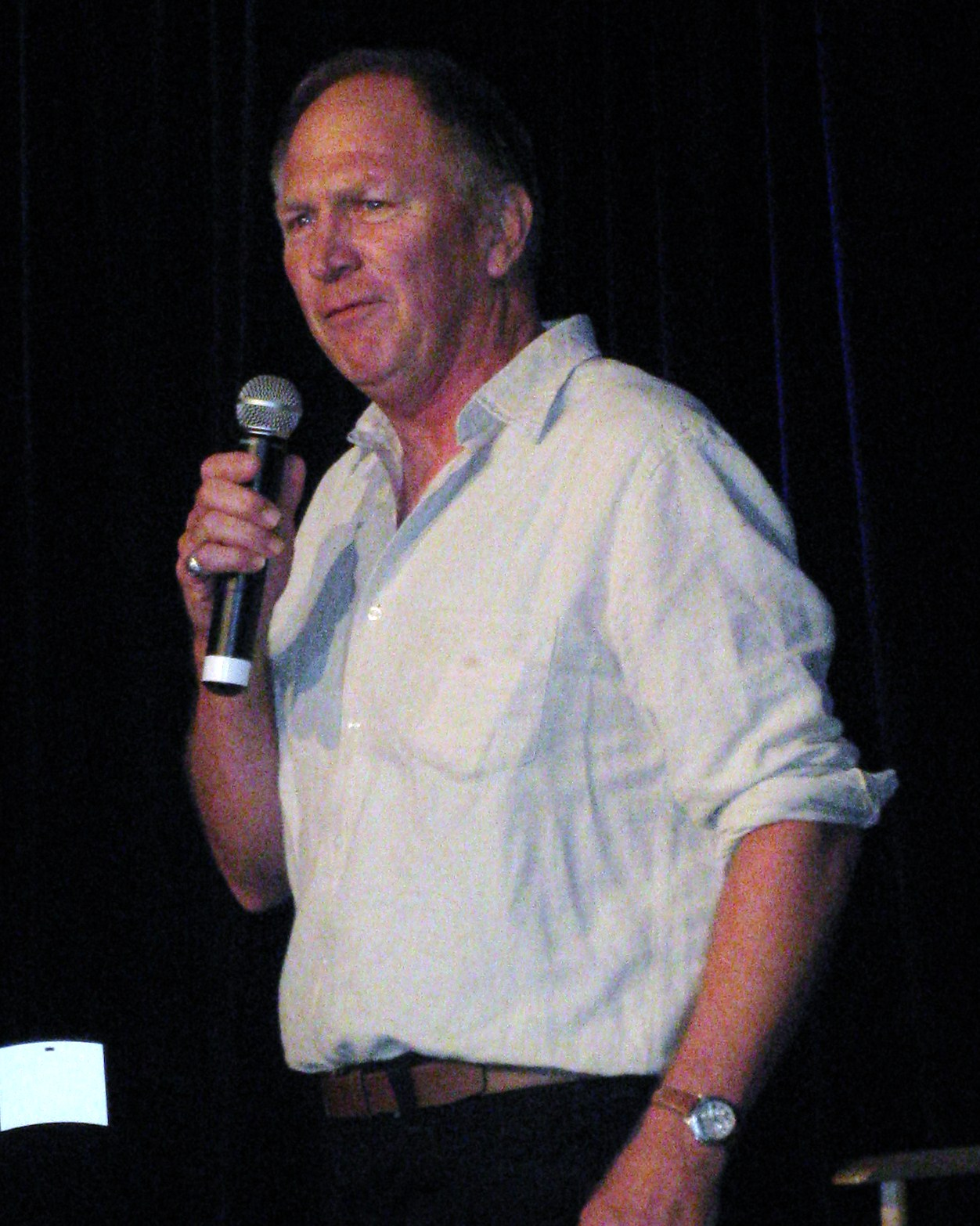 Vaughn Armstrong at Creation Entertainment's 2010 Star Trek Vancouver Convention.